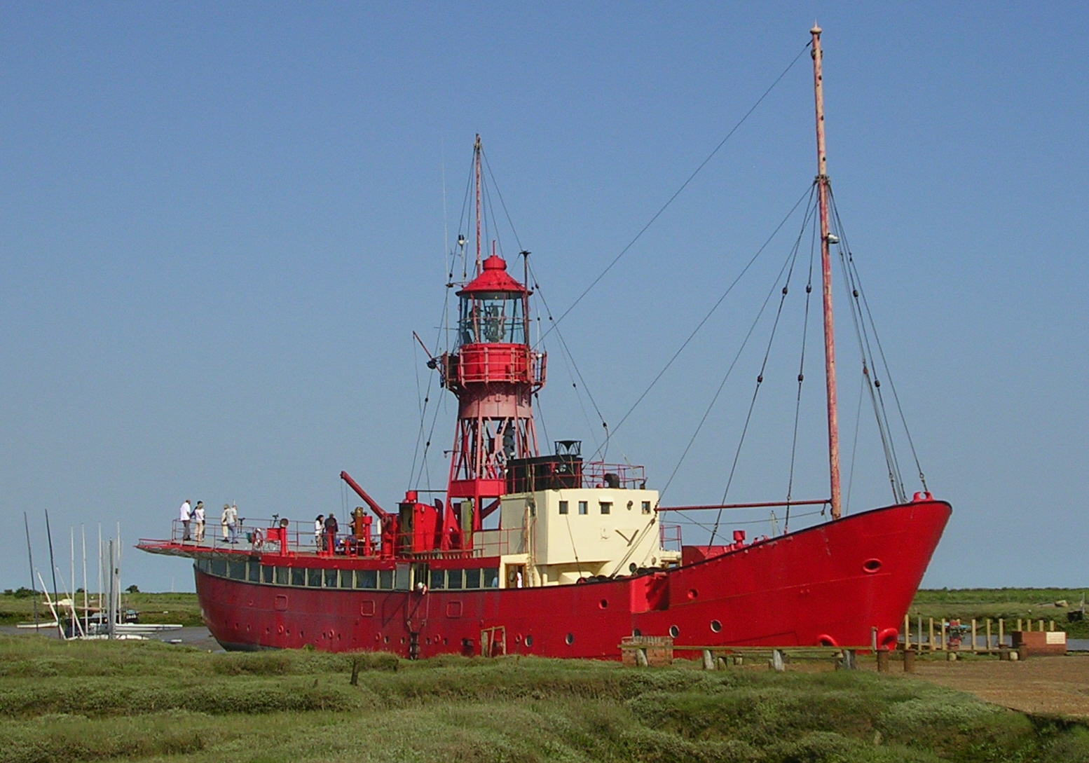 The Fellowship Afloat Light Vessel "Trinity" at Tollesbury Saltings, Tollesbury, Essex, England